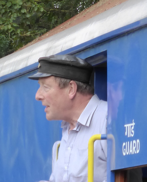 Adrian Shooter standing on replica Darjeeling Himalayan Railway passenger carriage built by Boston Lodge for use with DHR 778.